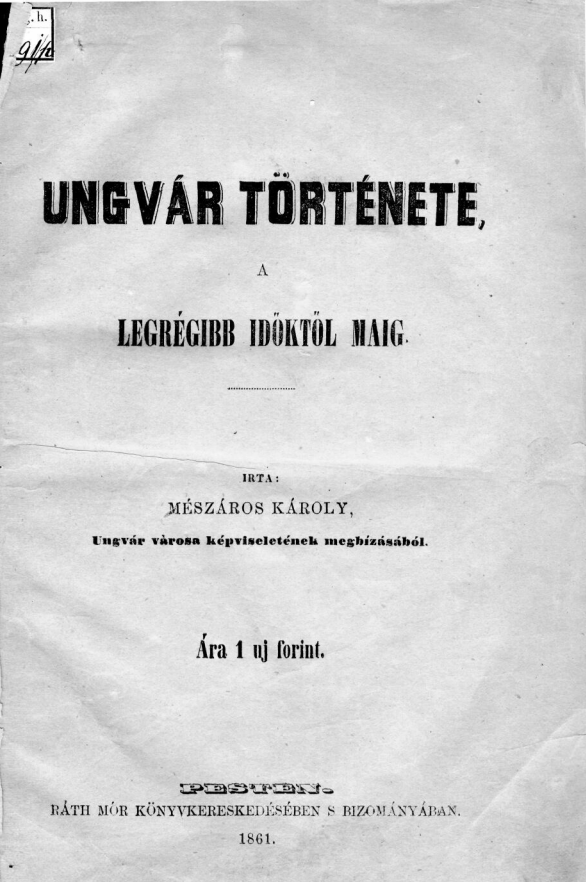 Cover of the book called Ungvár Története" (History of Uzhhorod) by Károly Mészáros. It was published in 1861.